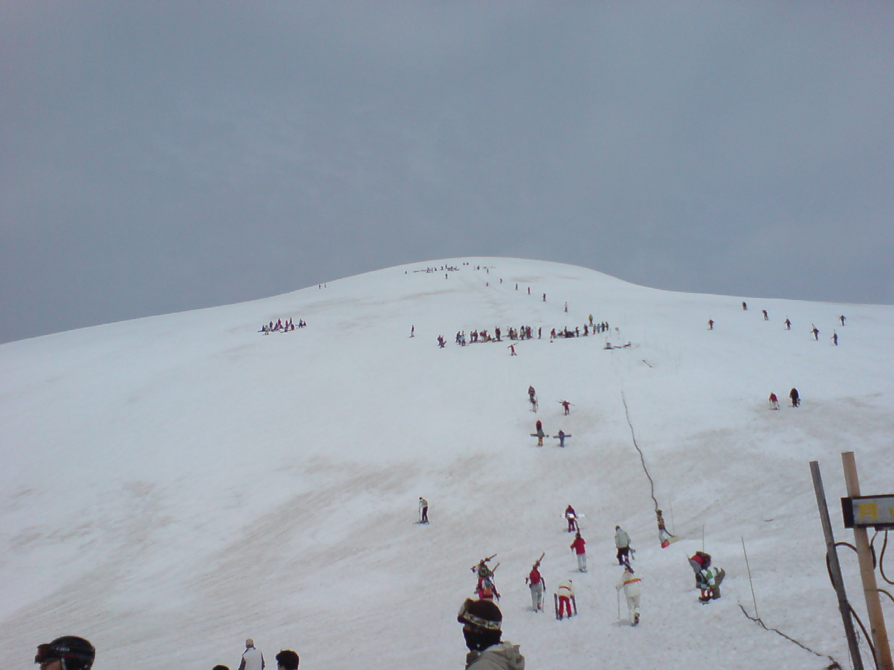 Gassan ski area in Nishikawa, Yamagata Prefecture, Japan. This peak is not summit of Gassan.